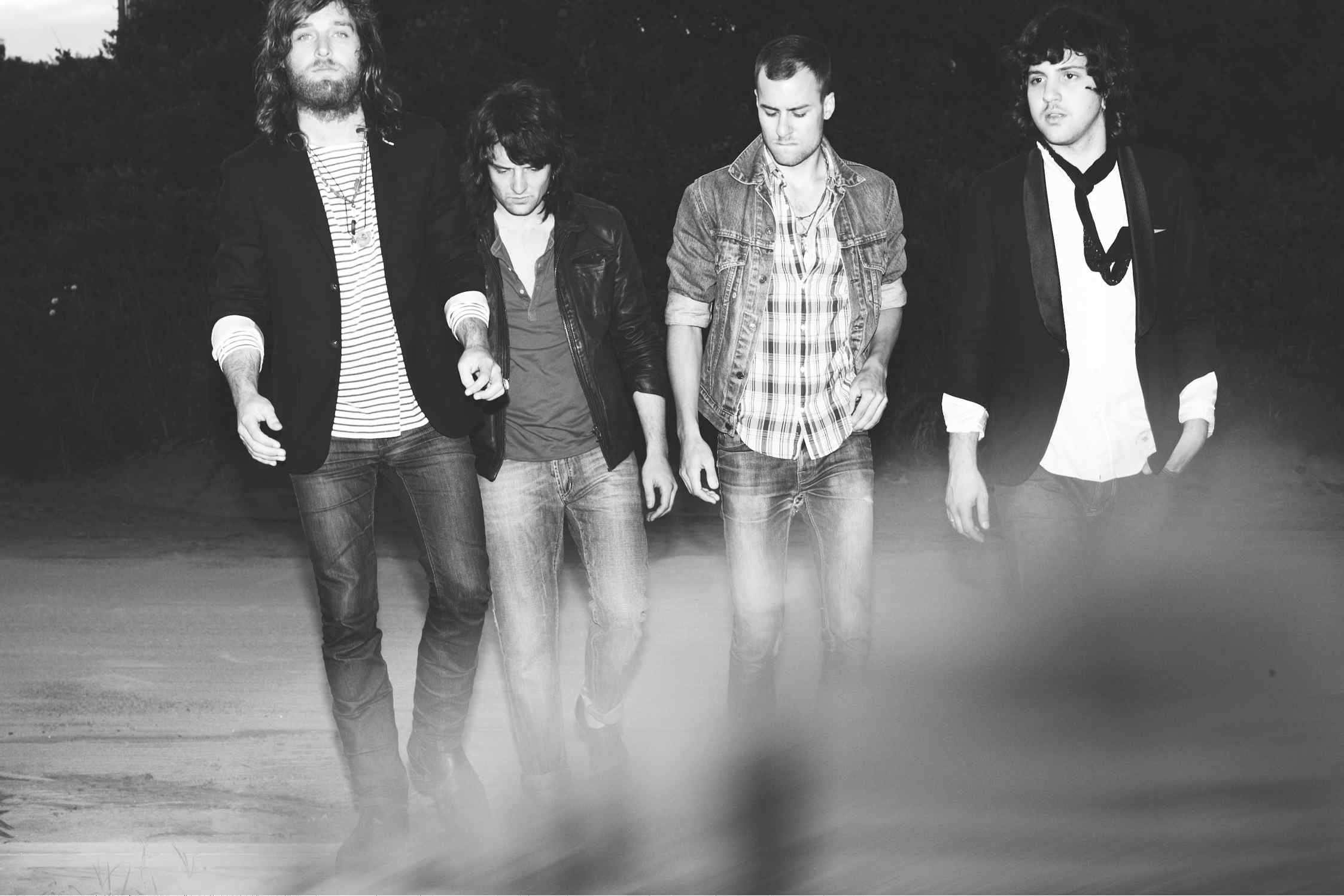 Photo by Guy Aroch